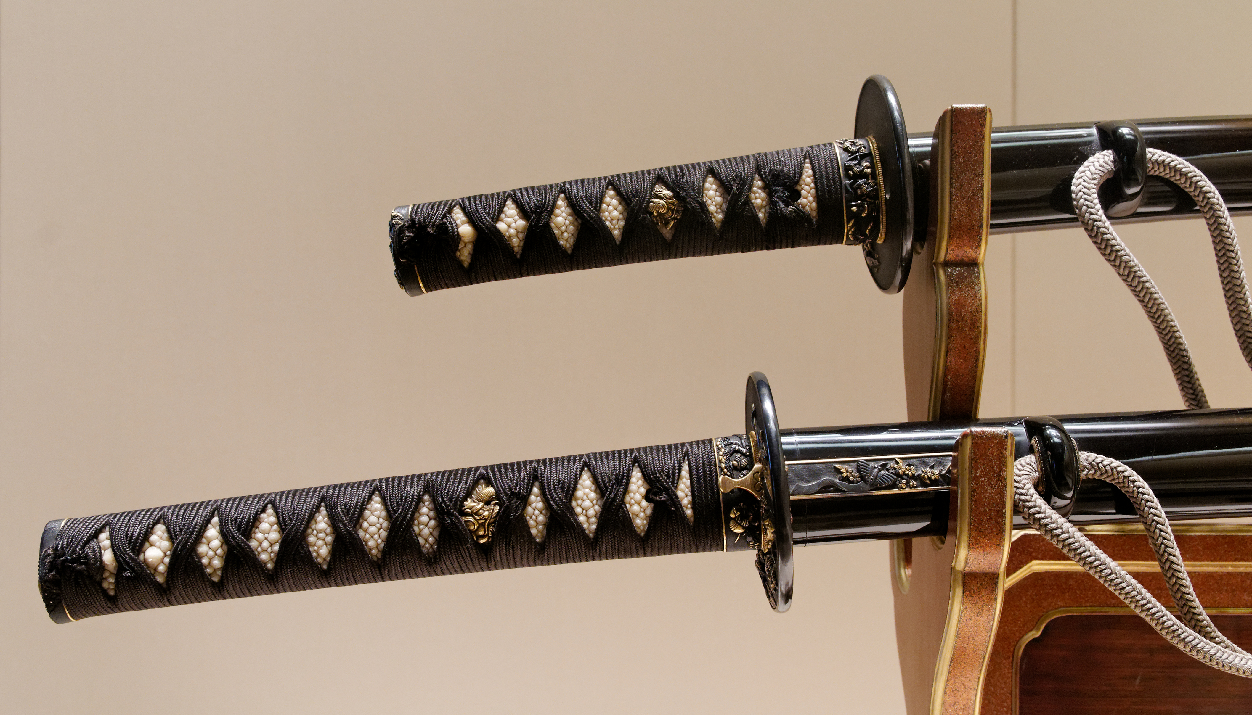 Detail of the mountings (koshirae) for a pair of swords (daishō), Edo period.